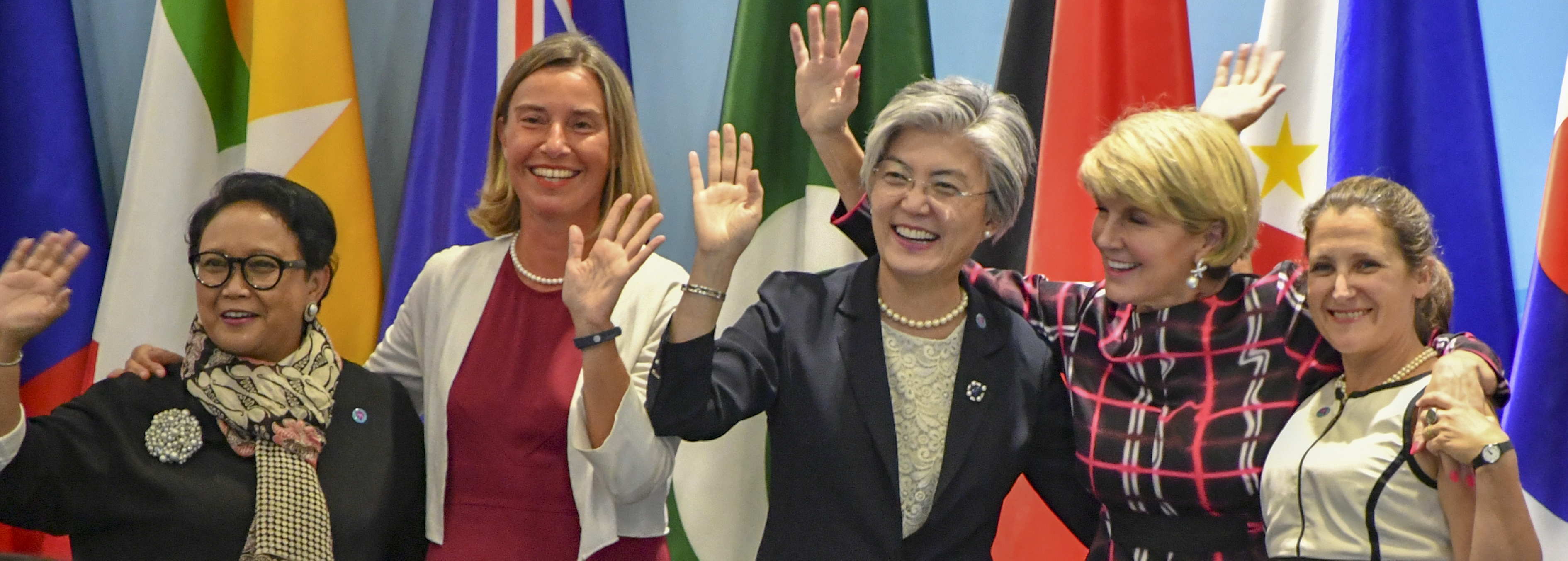 Female Foreign Ministers: Indonesia's Retno Marsudi, EU's High Representative of the EU for Foreign Affairs and Security Policy Federica Mogherini, South Korea's Kang Kyung-wha, Australia's FM Julie Bishop and Canada's Minister of Foreign Affairs Chrystia Freeland at the ASEAN Regional Forum Retreat in Singapore, Singapore